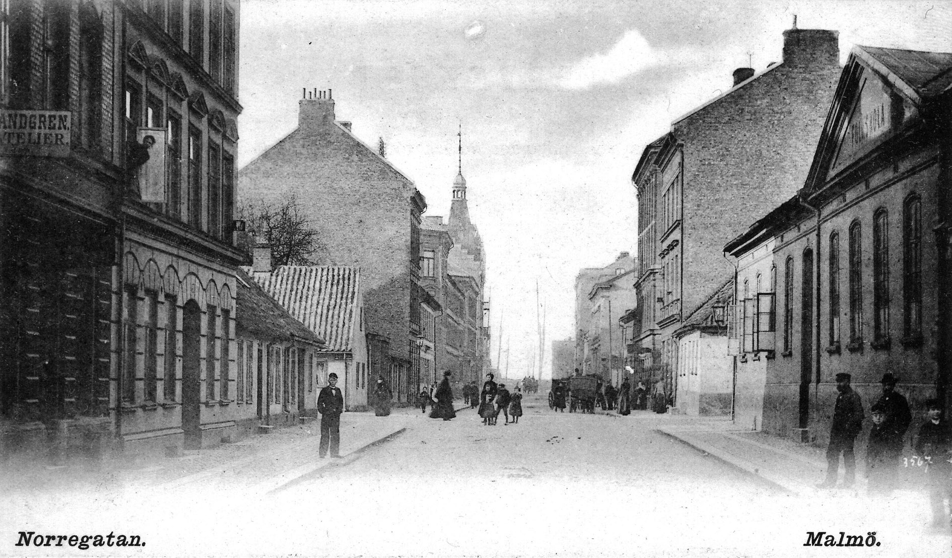 Norregatan in Malmo Sweden